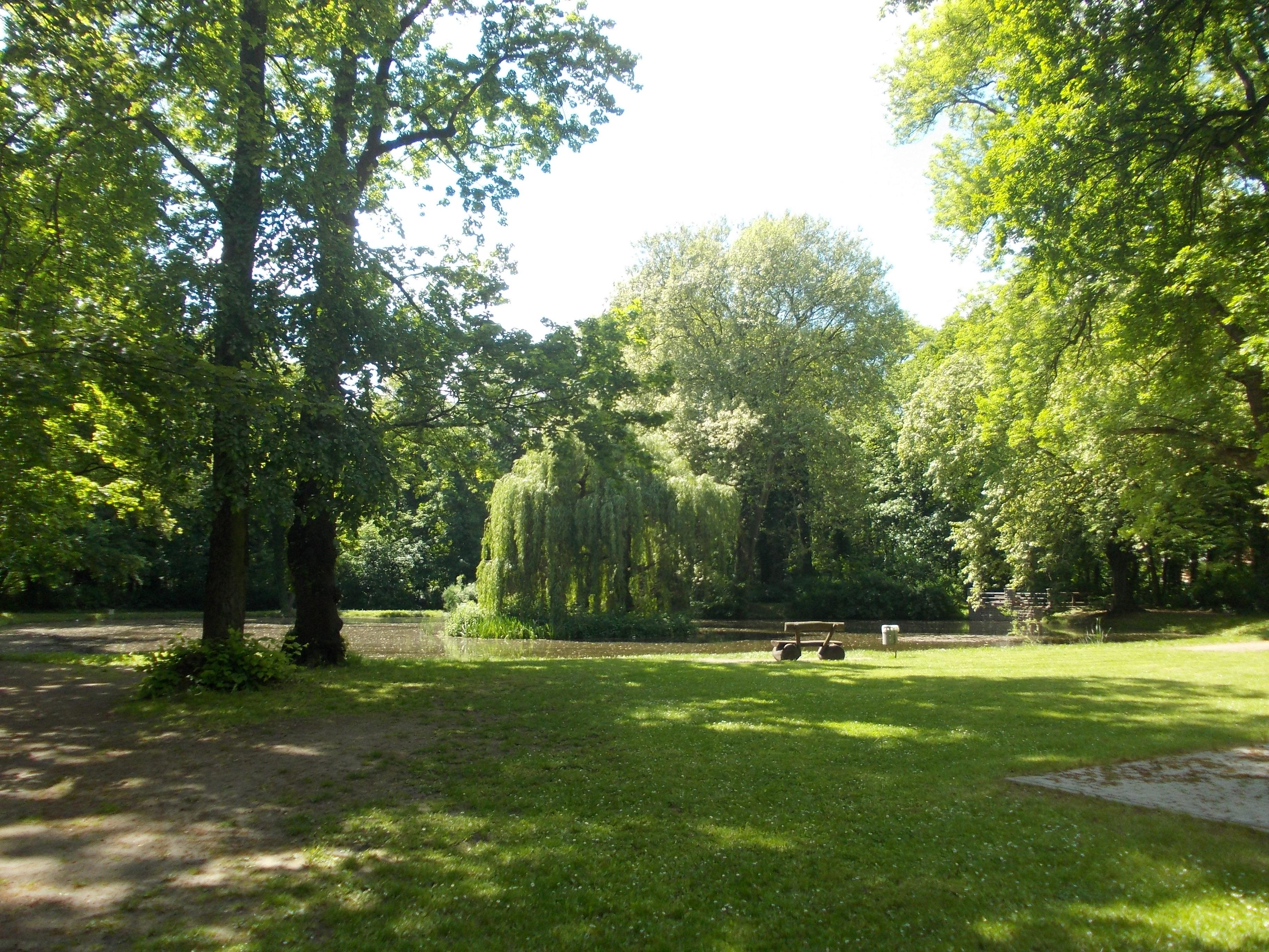 Pond in Volkspark in Gröbzig (Südliches Anhalt, Anhalt-Bitterfeld district, Saxony-Anhalt)